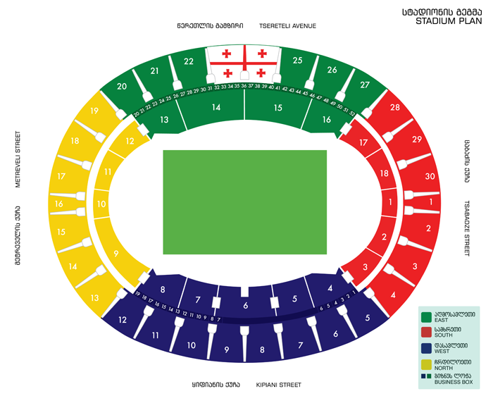 Dinamo Arena Stadium Plan, Tbilisi